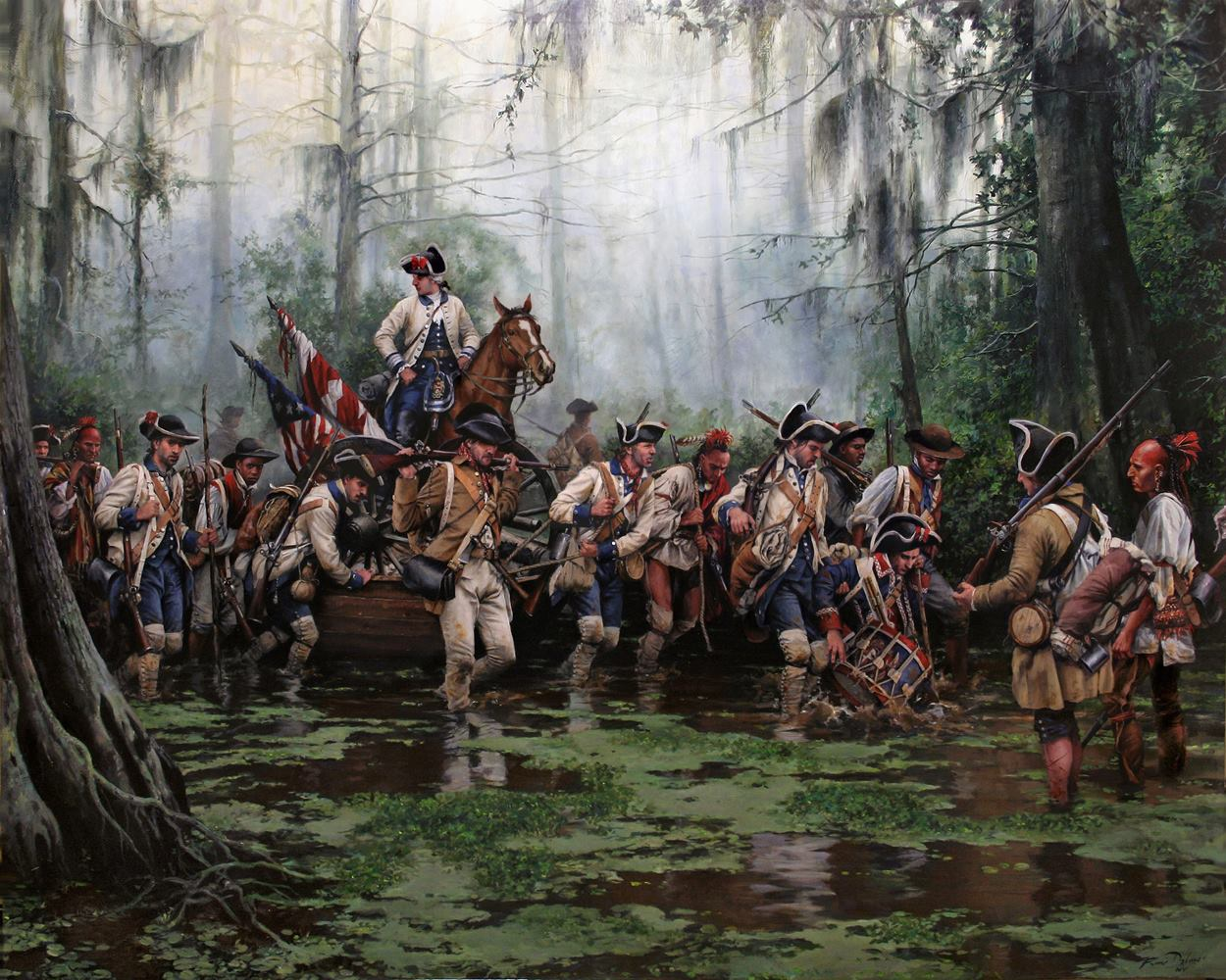 Obra titulada La Marcha de Gálvez, donde se muestran las penurias sufridas por la expedición militar de Bernardo de Gálvez en las ciénagas del sur de EE.UU. rumbo a asaltar los fuertes británicos de Machac y Baton Rouge durante la Guerra de Independencia de los Estados Unidos.